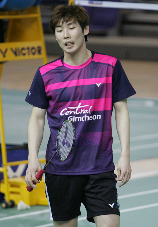 Son Wan Ho at the spring team event in 2015, held in Hwacheon.